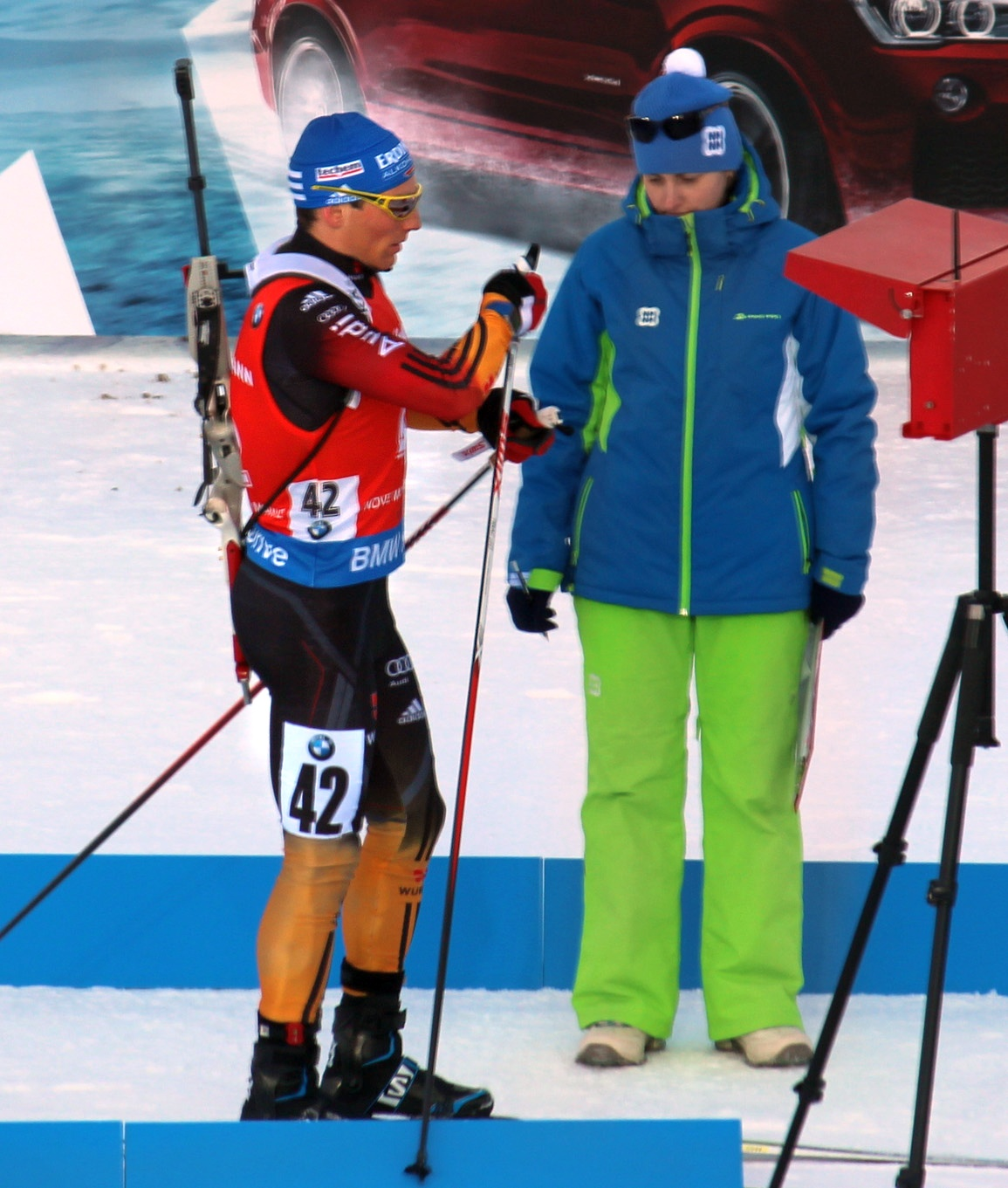 Erik Lesser at Biathlon World Cup 2015 in Nové Město, Czech Republic – sprint men